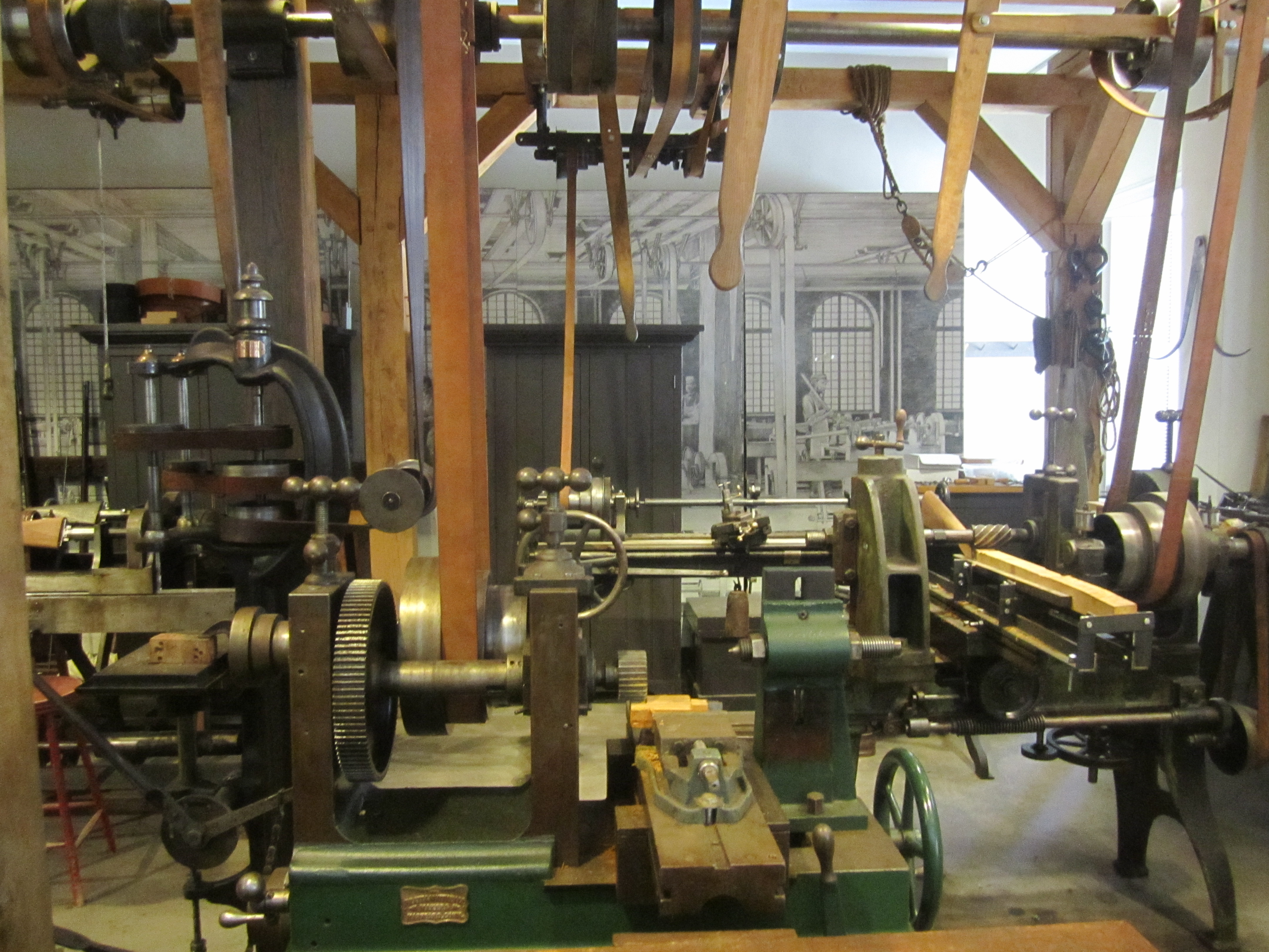 I took photo of armory operation at Harpers Ferry National Historical Park, using a Canon camera.